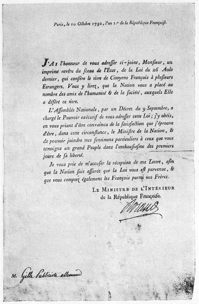 charter of honorary citizenship of Friedrich Schiller in France.